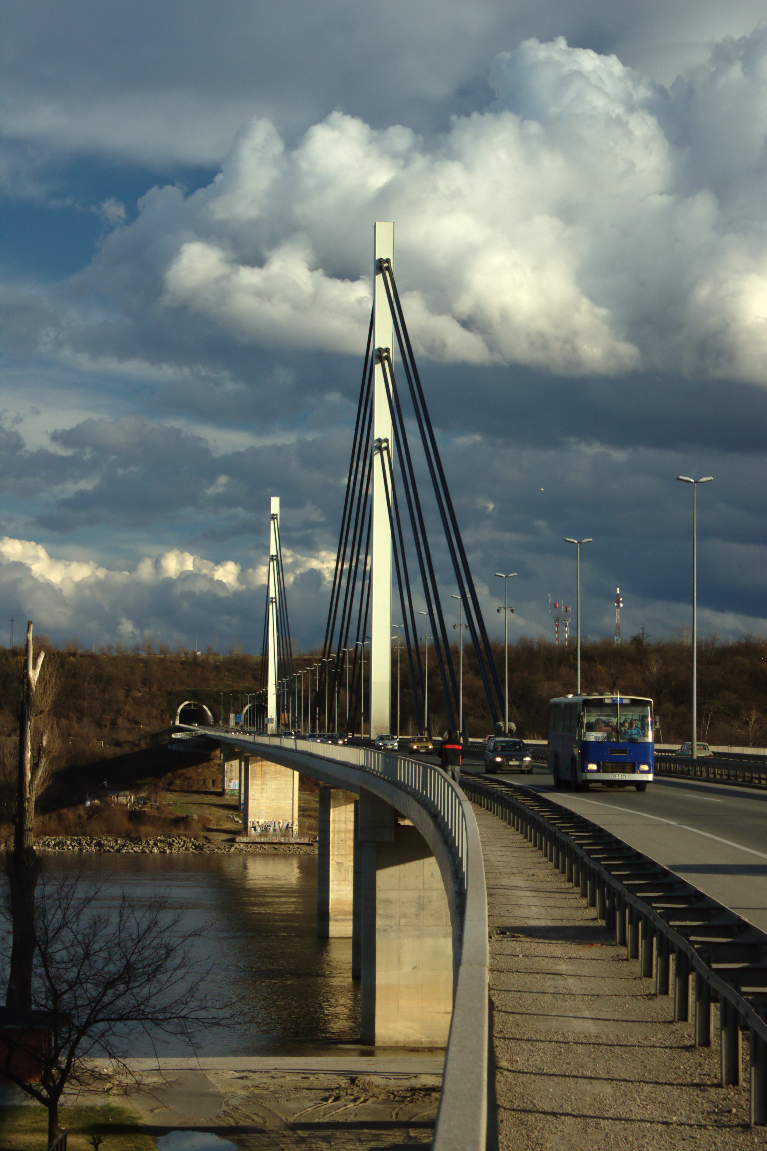 Freedom bridge seen from Novi Sad side towards Sremski Karlovci and Mišeluk Tunells. A bus of international line Banja Luka - Novi Sad can be seen in the distance